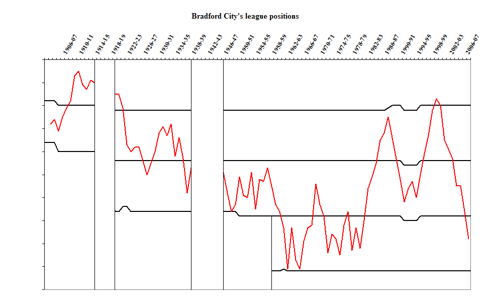 Graphical representation of Bradford City's league record